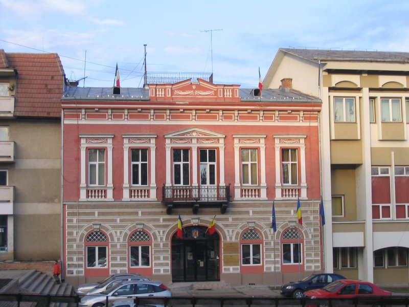 The fogolyánhouse in Sfântu Gheorghe, Transylvania